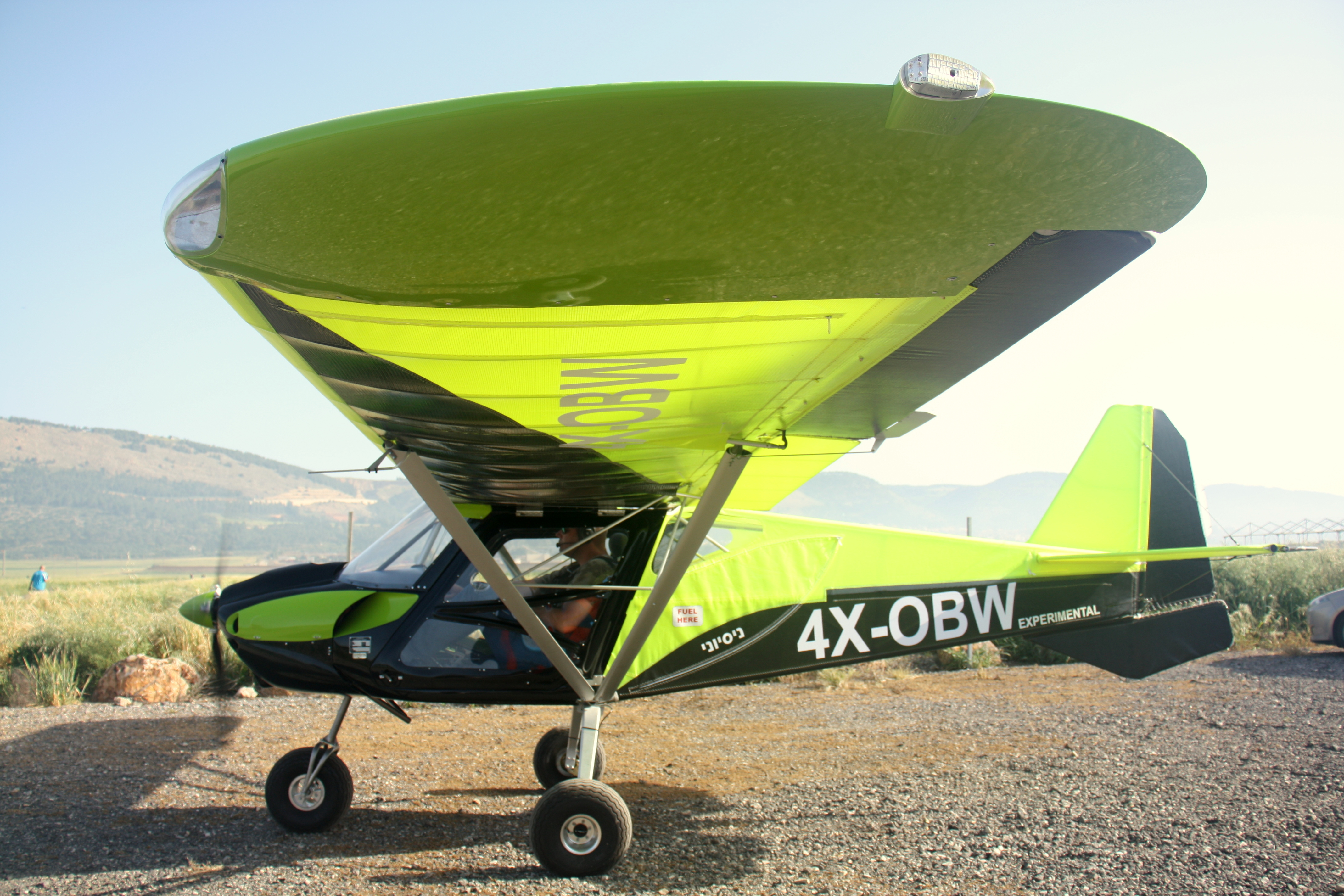 4X-OBW SkyReach BushCat at Tel Adashim 4/2018